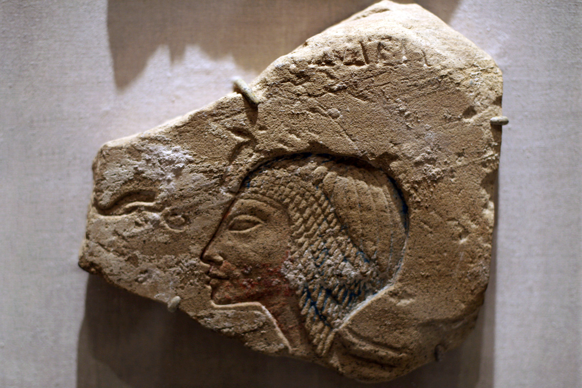 Late Image of Nefertiti, ca. 1352-1336 B.C.E. Sandstone. Brooklyn Museum, Gift of the Egypt Exploration Society, 35.1999.